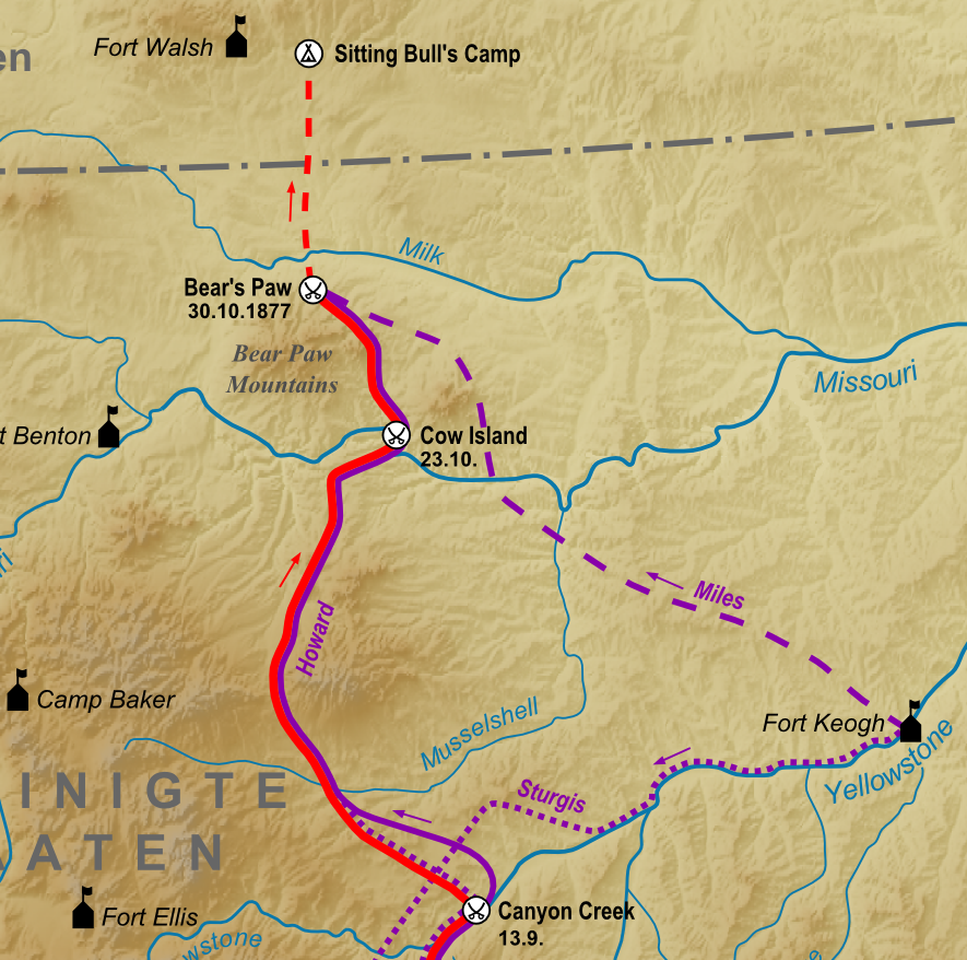 The route of the Nez Perce from Canyon Creek to the Bear Paw Battle. This is a cropped version of the original posted on Wikimedia under GNU Free Documentation License. I don't know how to list that license in the upload wizard.